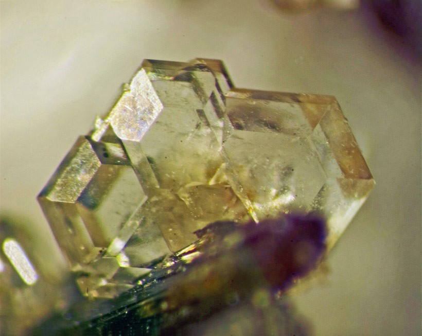 Catapleiite Locality: Poudrette quarry (Demix quarry; Uni-Mix quarry; Desourdy quarry; Carrière Mont Saint-Hilaire), Mont Saint-Hilaire, La Vallée-du-Richelieu RCM, Montérégie, Québec, Canada FOV 2.9 x 2.4 mm. Found August 1996. MOB coll. Another "cute little catapleiite". What can I say? I'm a catapleiite addict.